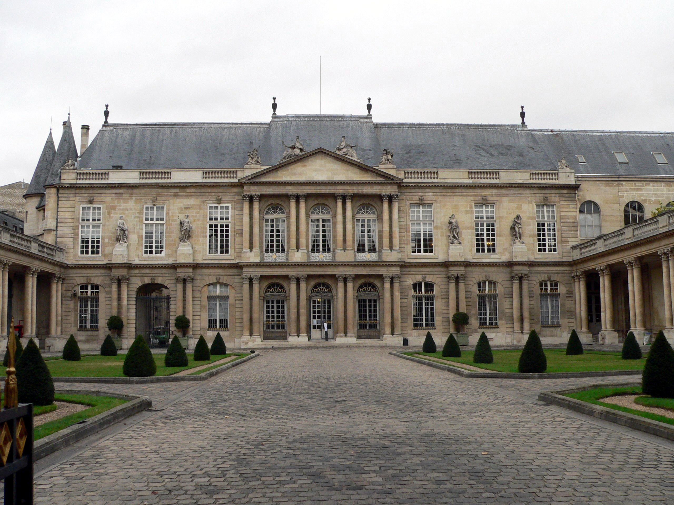 Archives Nationales, Paris, France